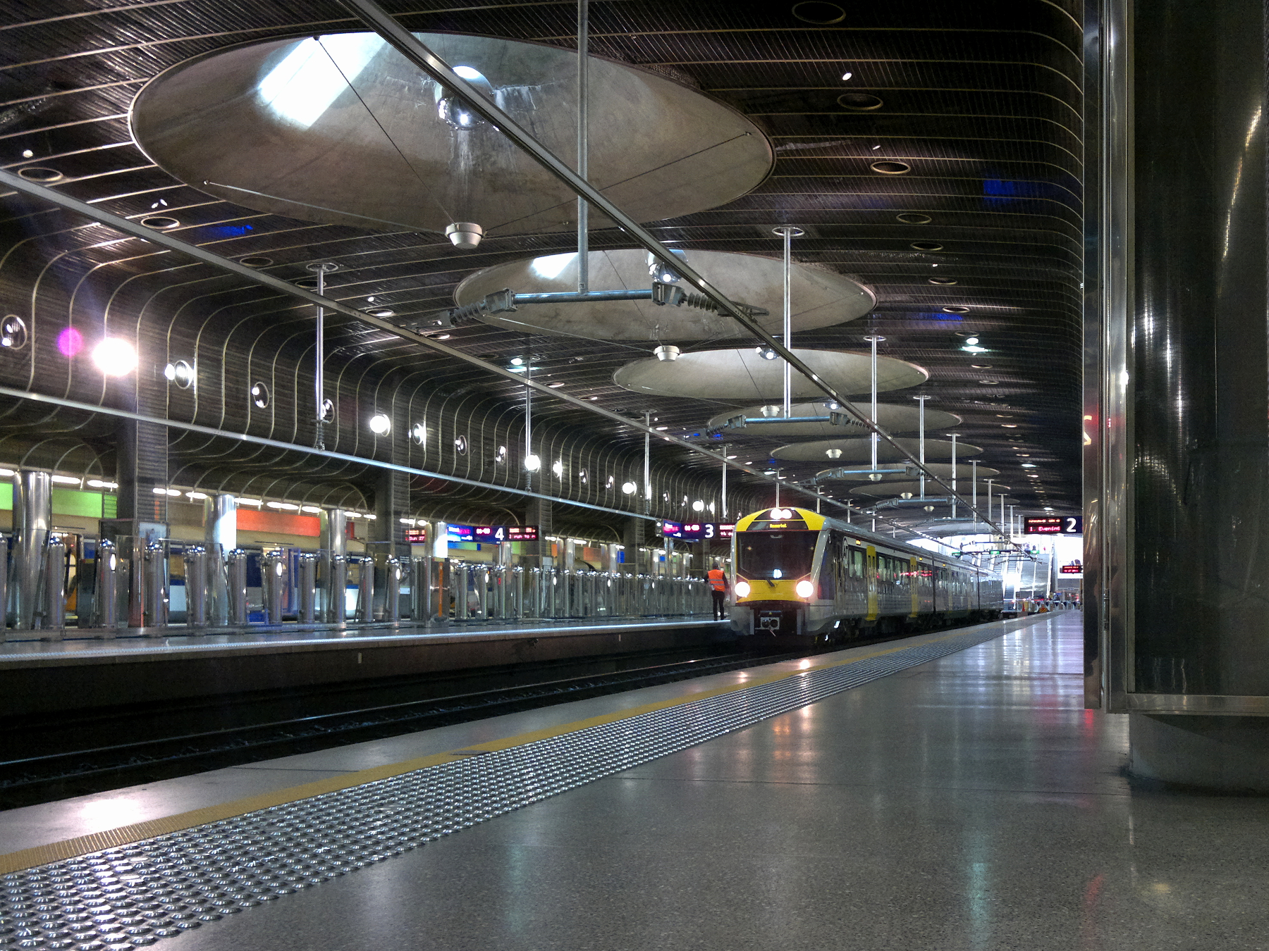 AN AMP class EMU sits at Britomart Station, April 2014